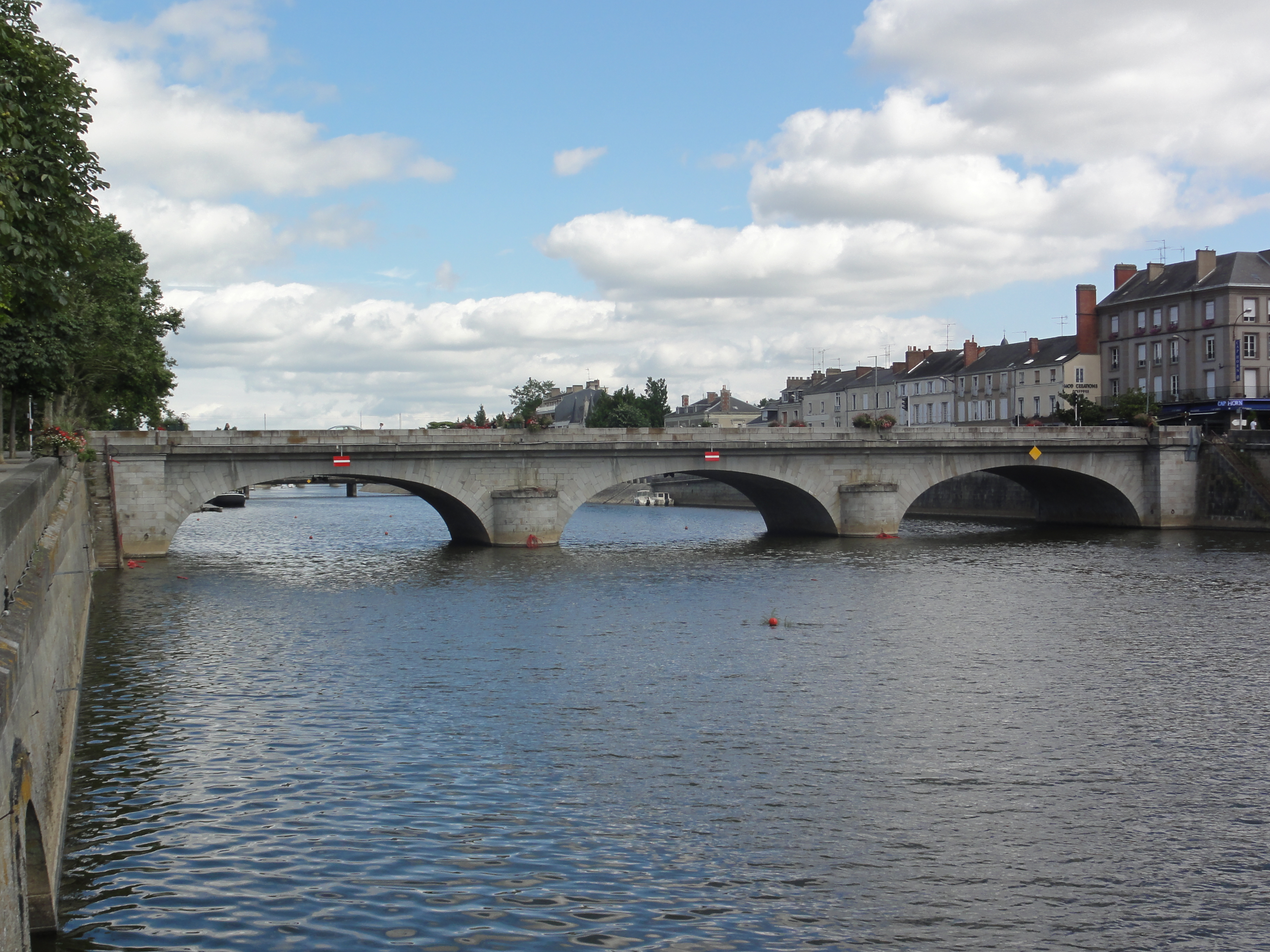 Pont Aristide-Briand, Laval, Mayenne, France.